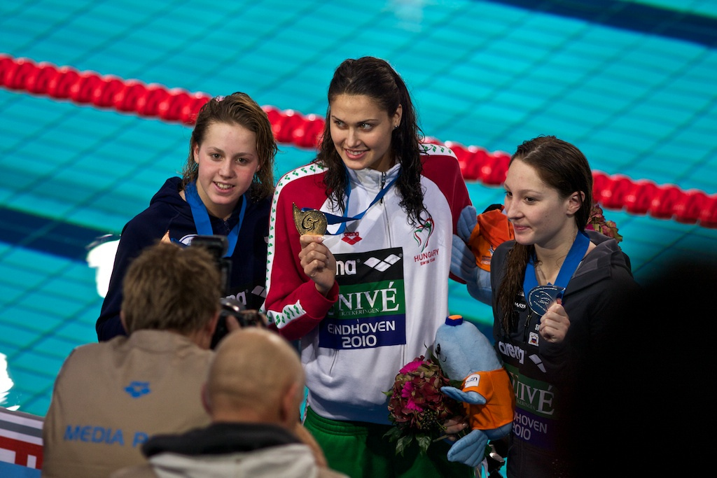 Zsuzsanna Jakabos (middle) Lara Grangeon and Anja Klinar during European short course swimming championships 2010 in Eindhoven